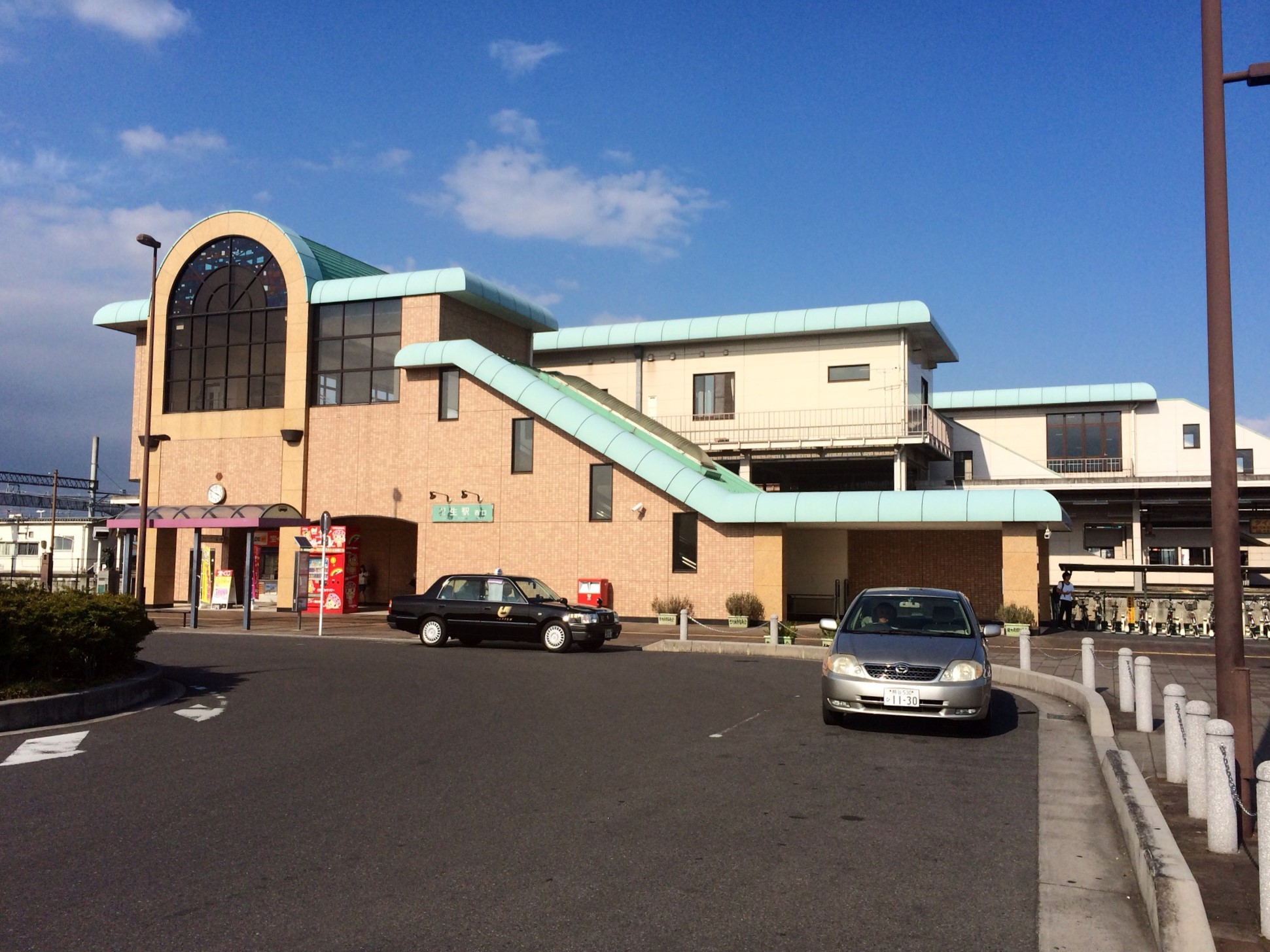 The west entrance to Hanyu Station on the Chichibu Line and Isesaki Line